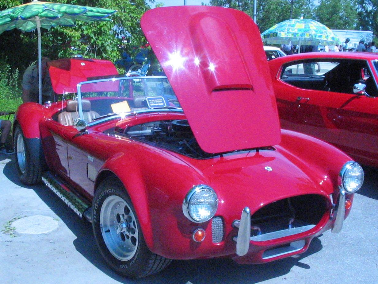 1966 Shelby AC Cobra photographed in Laval, Quebec, Canada at the Auto classique Laval.